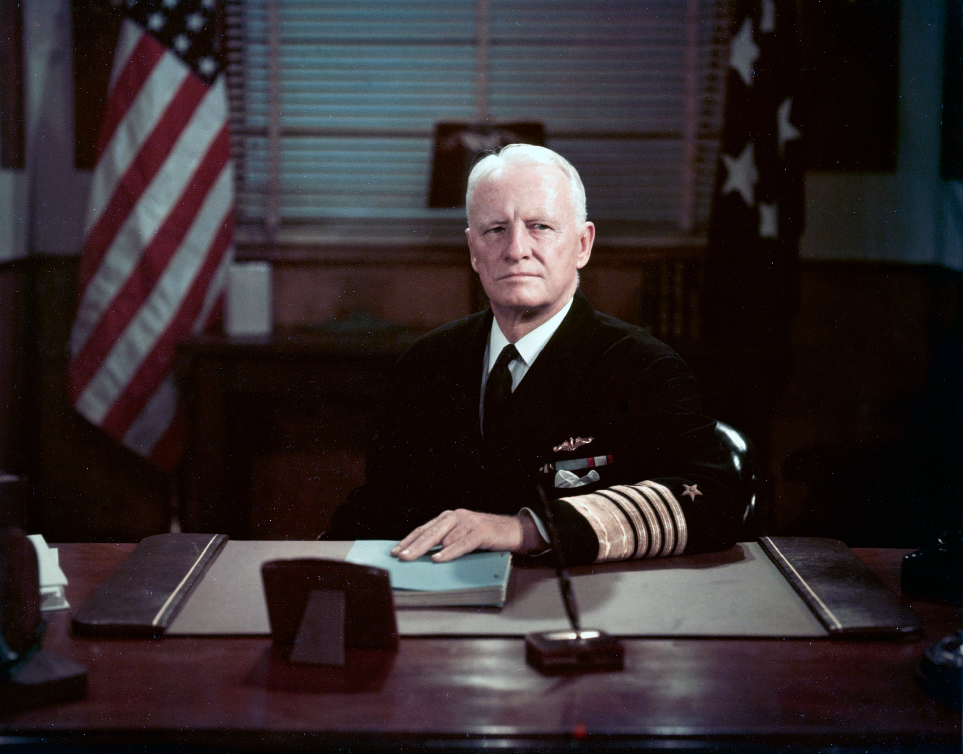 Chester Nimitz while Chief of Naval Operations.